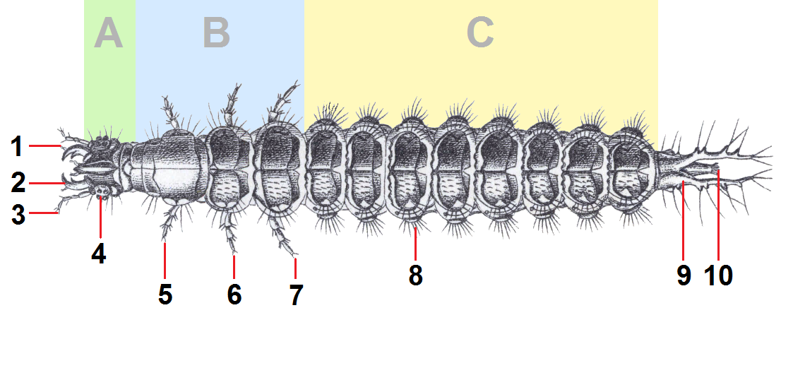 Other version of : Reitter Notiophilus u.a..jpg